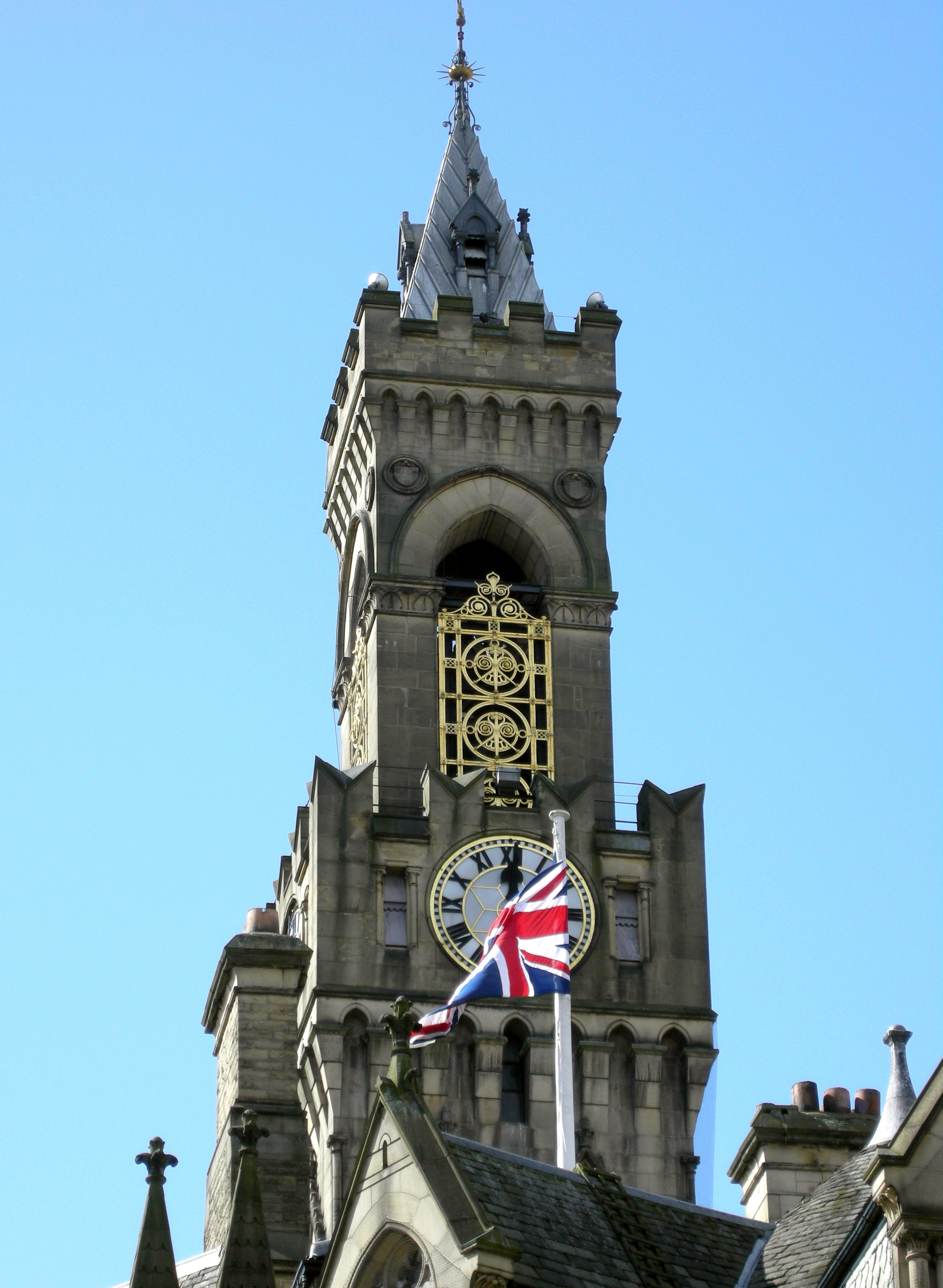 View of city of Bradford, Yorkshire, England, showing Bradford City Hall